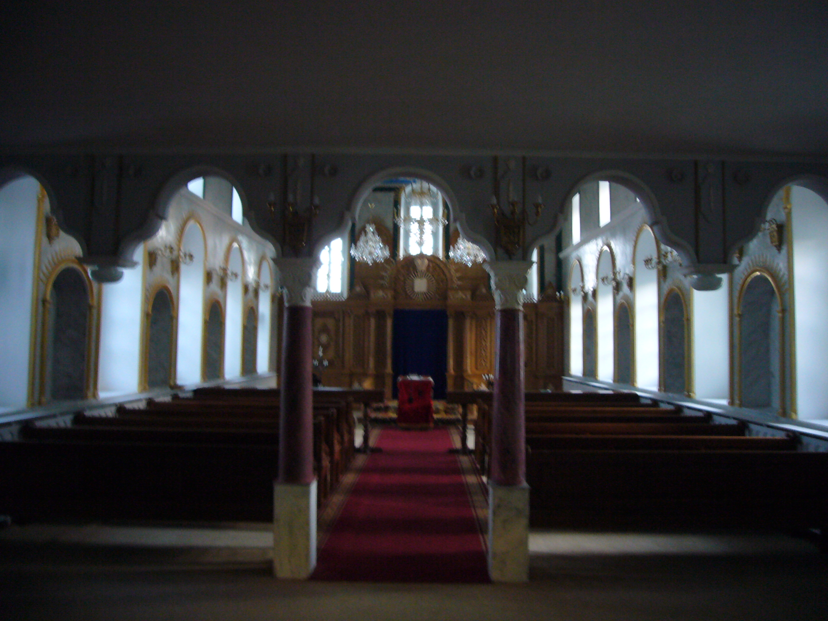 Interior of Karaim Greater Kenassa in Eupatoria, Crimea, Ukraine.